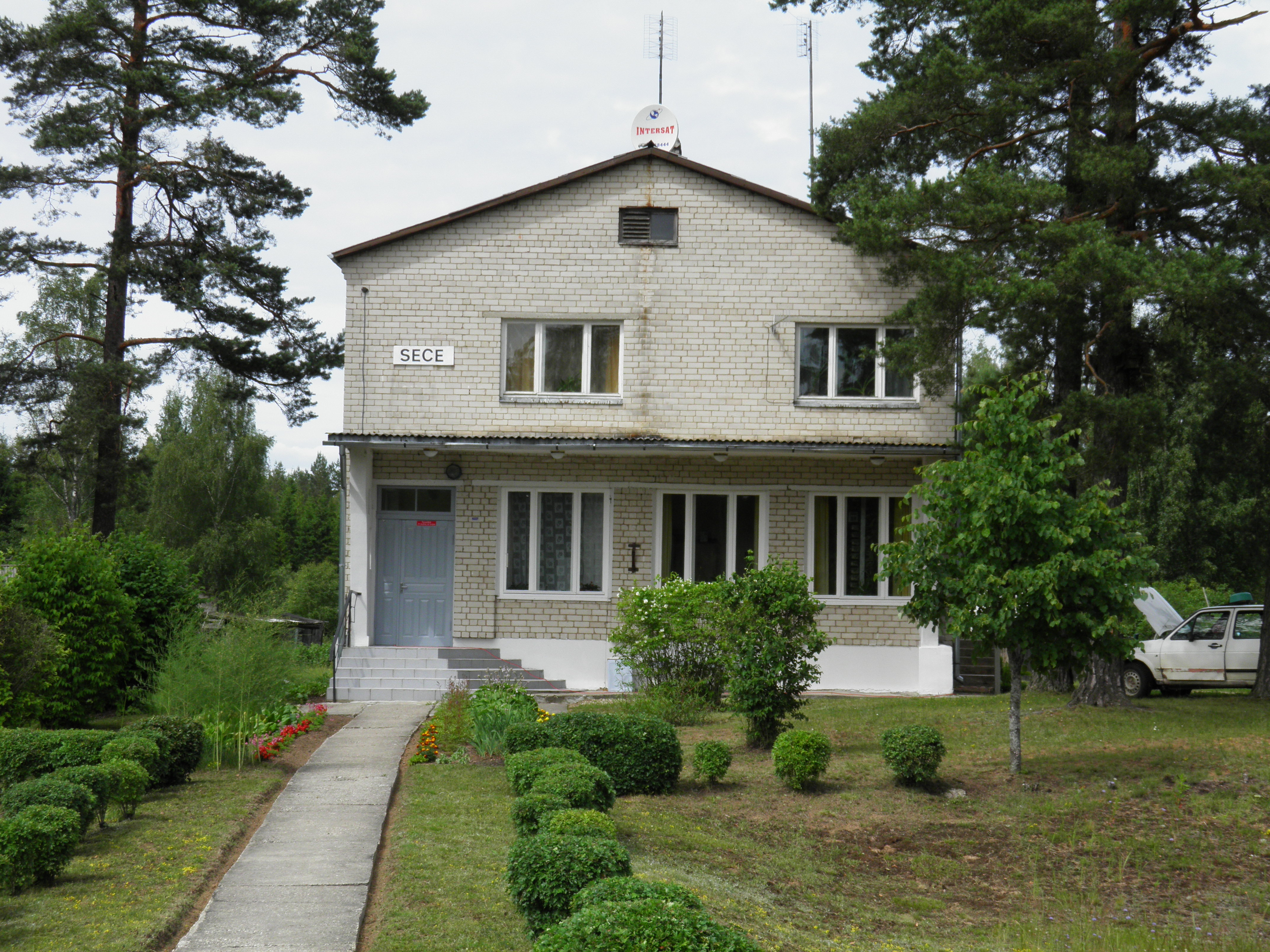 train station